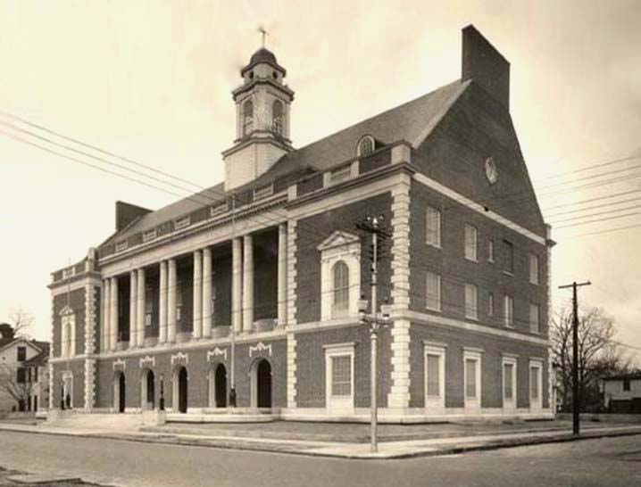 U.S. Post Office, Court House, and Custom House (1935) New Bern, North Carolina Completed in 1935. Architect: Robert Smallwood Still in use by the U.S. District Court for the Eastern District of North Carolina.